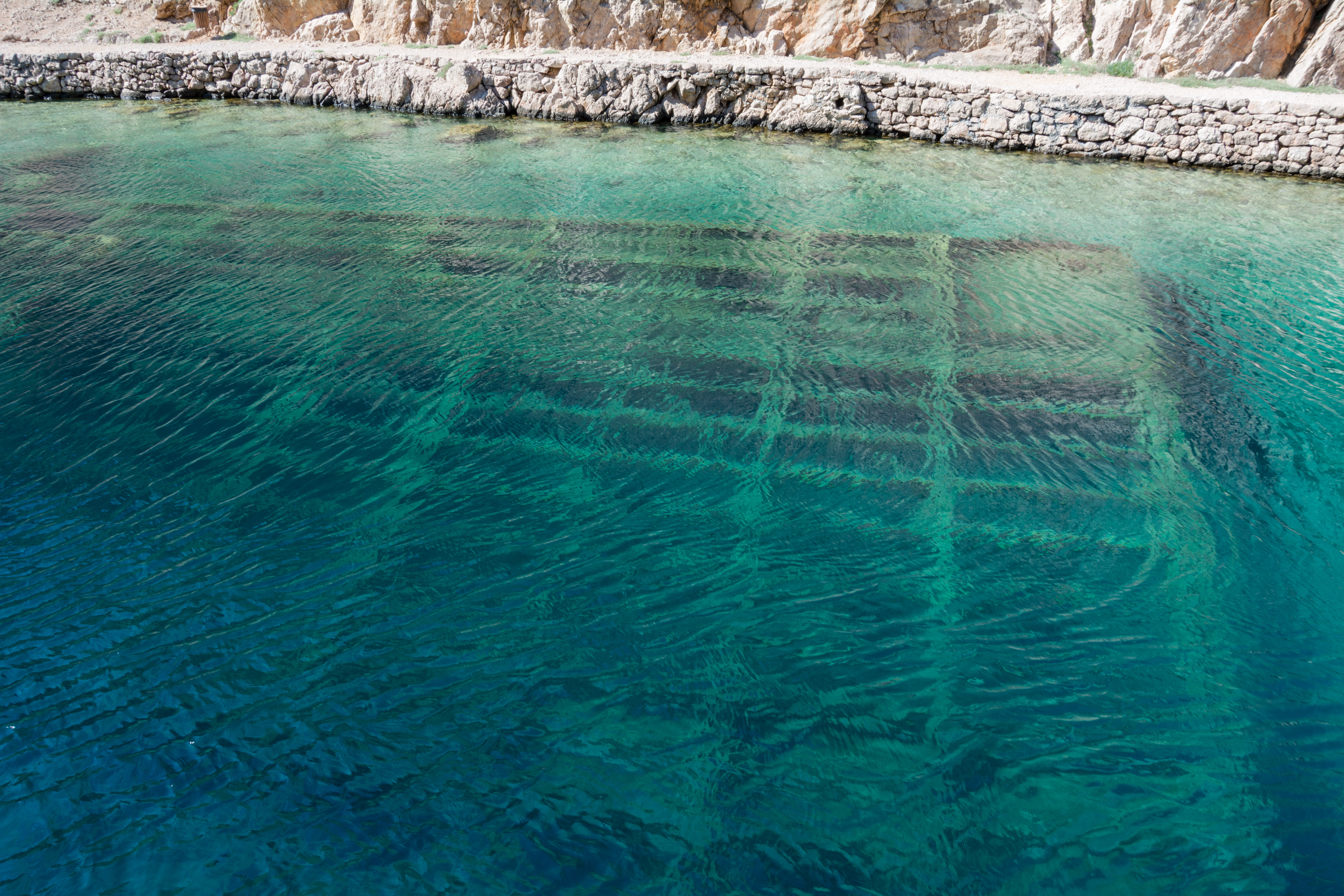 In the Zavratnica there is a sunken military ferry wreck from WW2. Zavratnica is a bay in the Adreatic Sea of Croatia in the comunity of Jablanac. It is between 50 and 150 m wide and has a length of approximately 900 m. It is part of the Velebit National Park and protected because of its beauty.